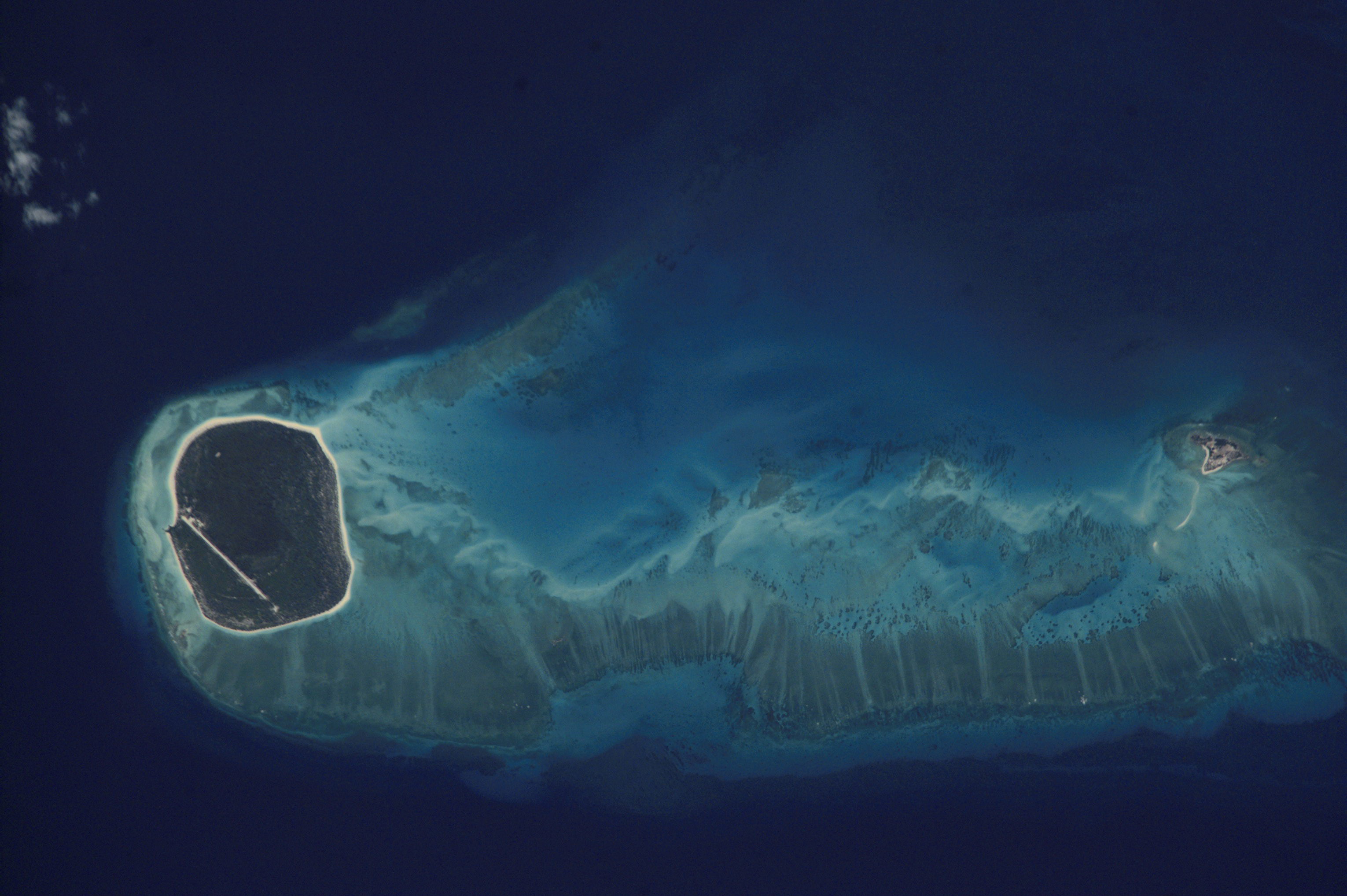 Glorioso Islands